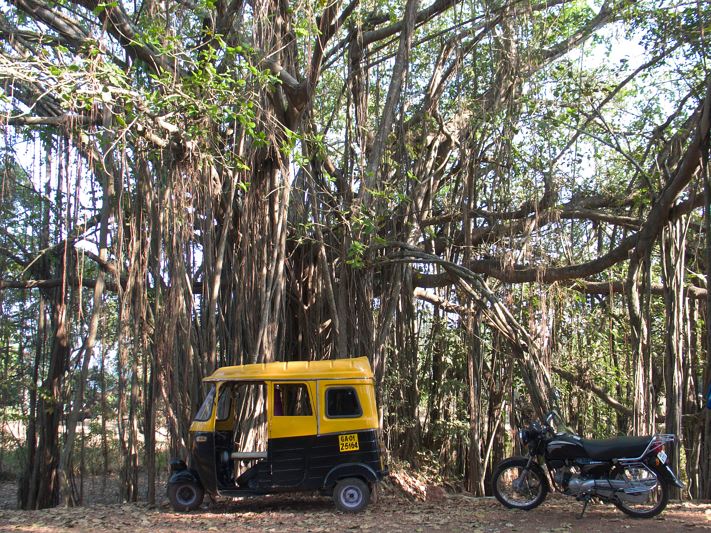 A banyan tree shot near the chopdem fish market in Morjim, Goa, India.